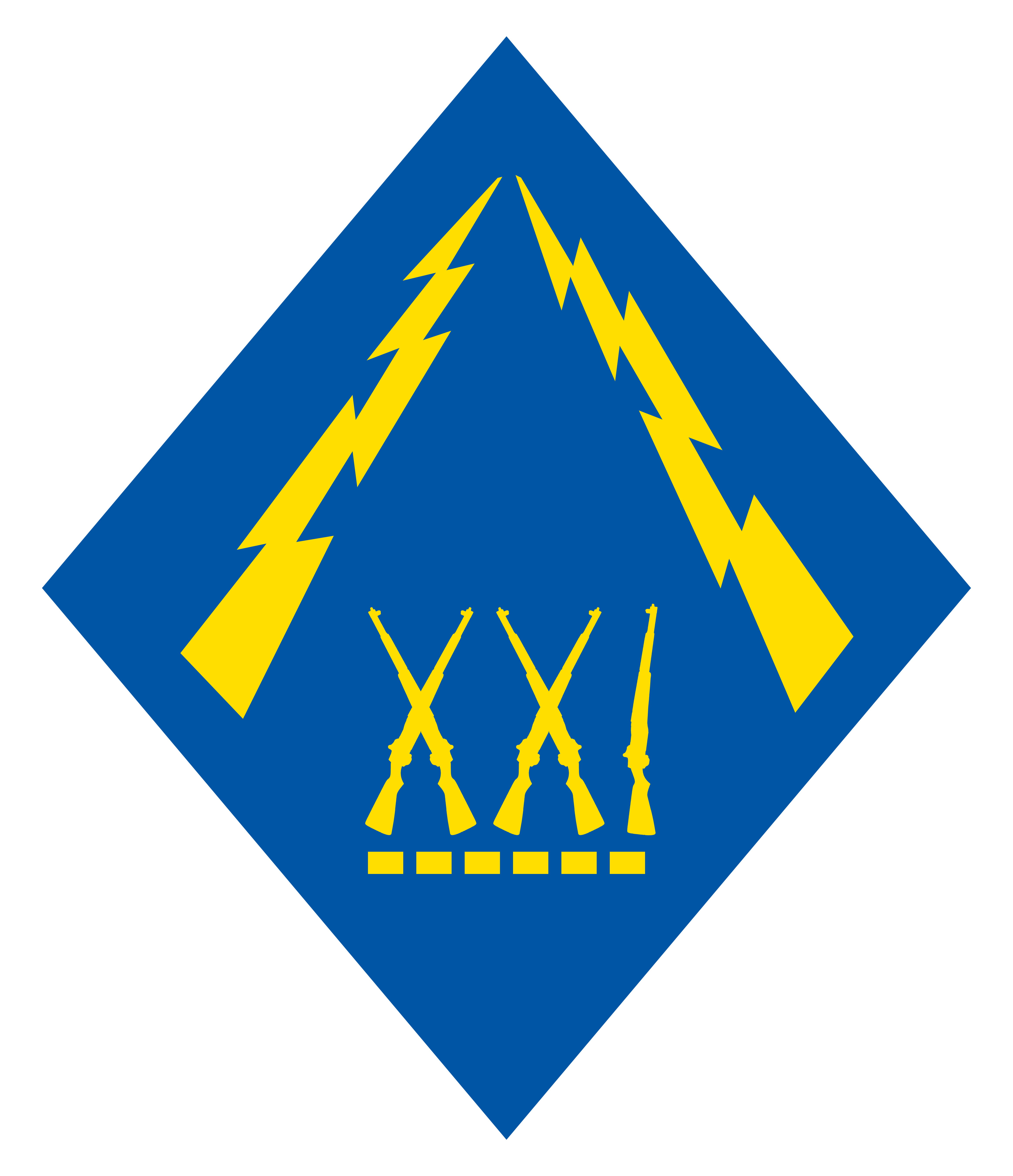 21st Philippine Division emblem from 1941-42 (original "XXI" version), probably developed early in that period or just prior; color versions of this are a matter of record, and bronze version(s) of these emblems are seen on monuments around the Philippines.